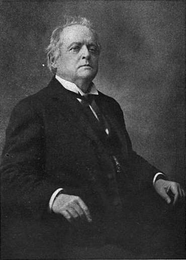 Portrait of lawyer and author Thomas Newton Allen c1909.